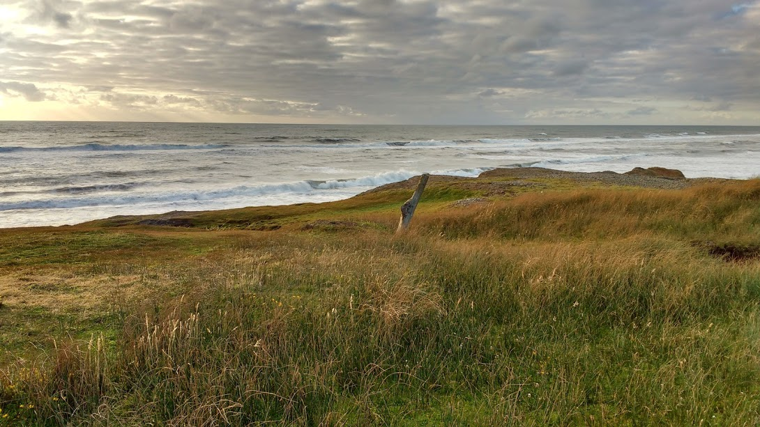 costa_playa